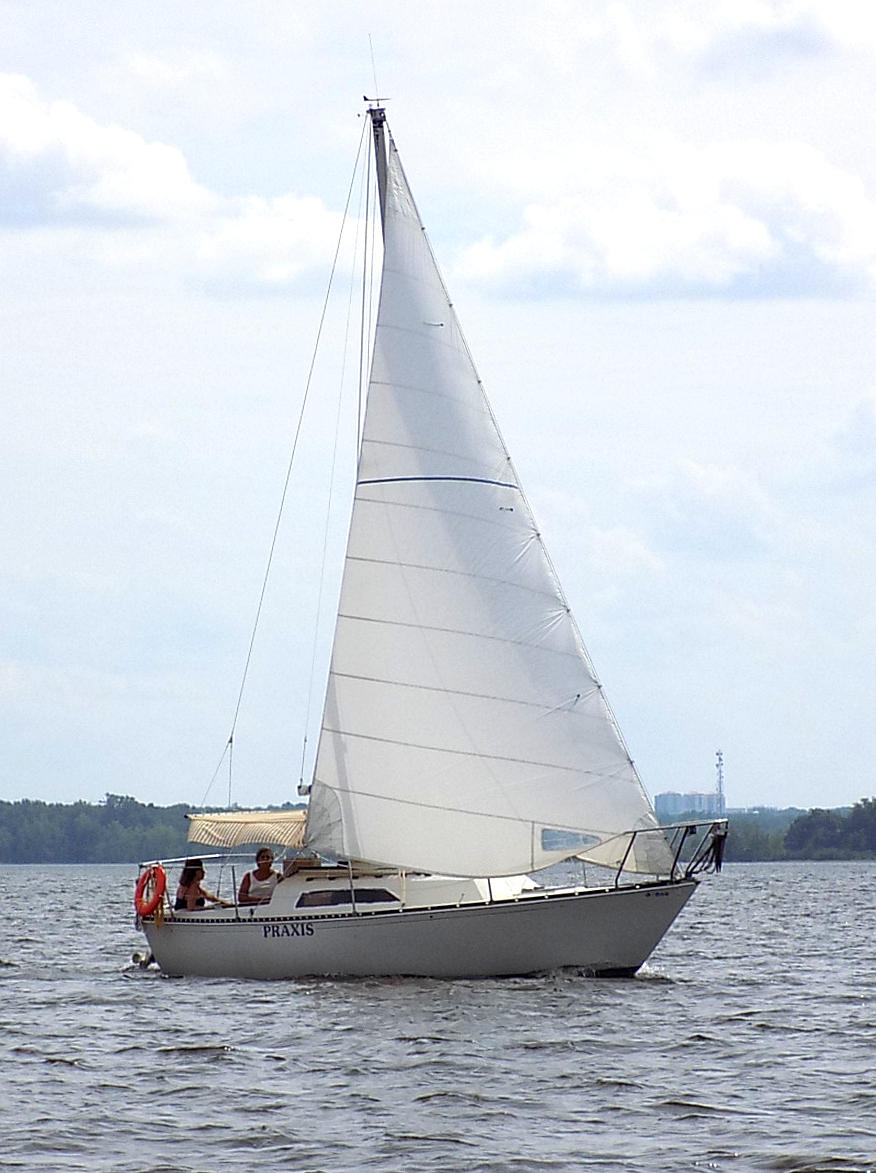 A C&C 24 sailboat named Praxis.